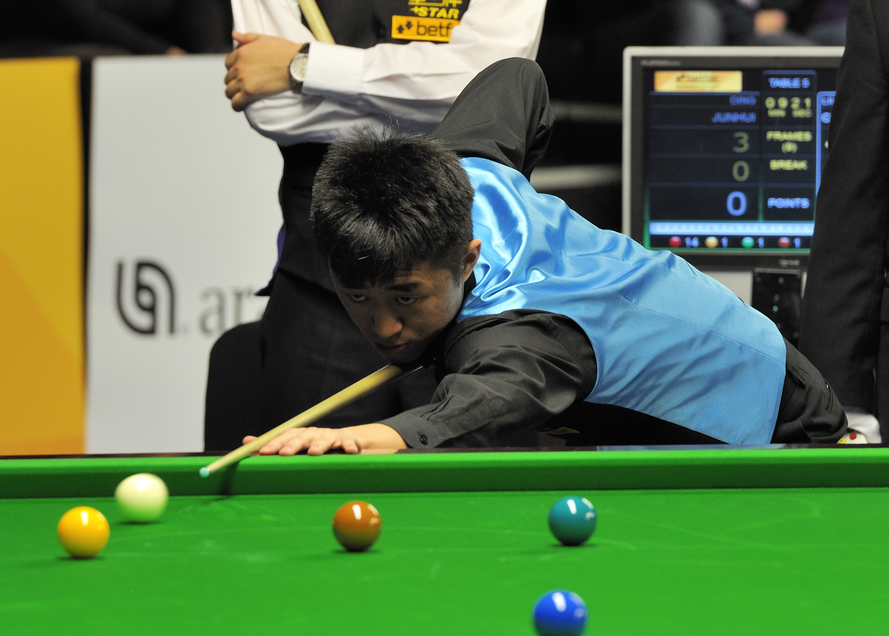 Picture taken in Berlin during the Snooker German Masters in 2013. Liu Chuang.